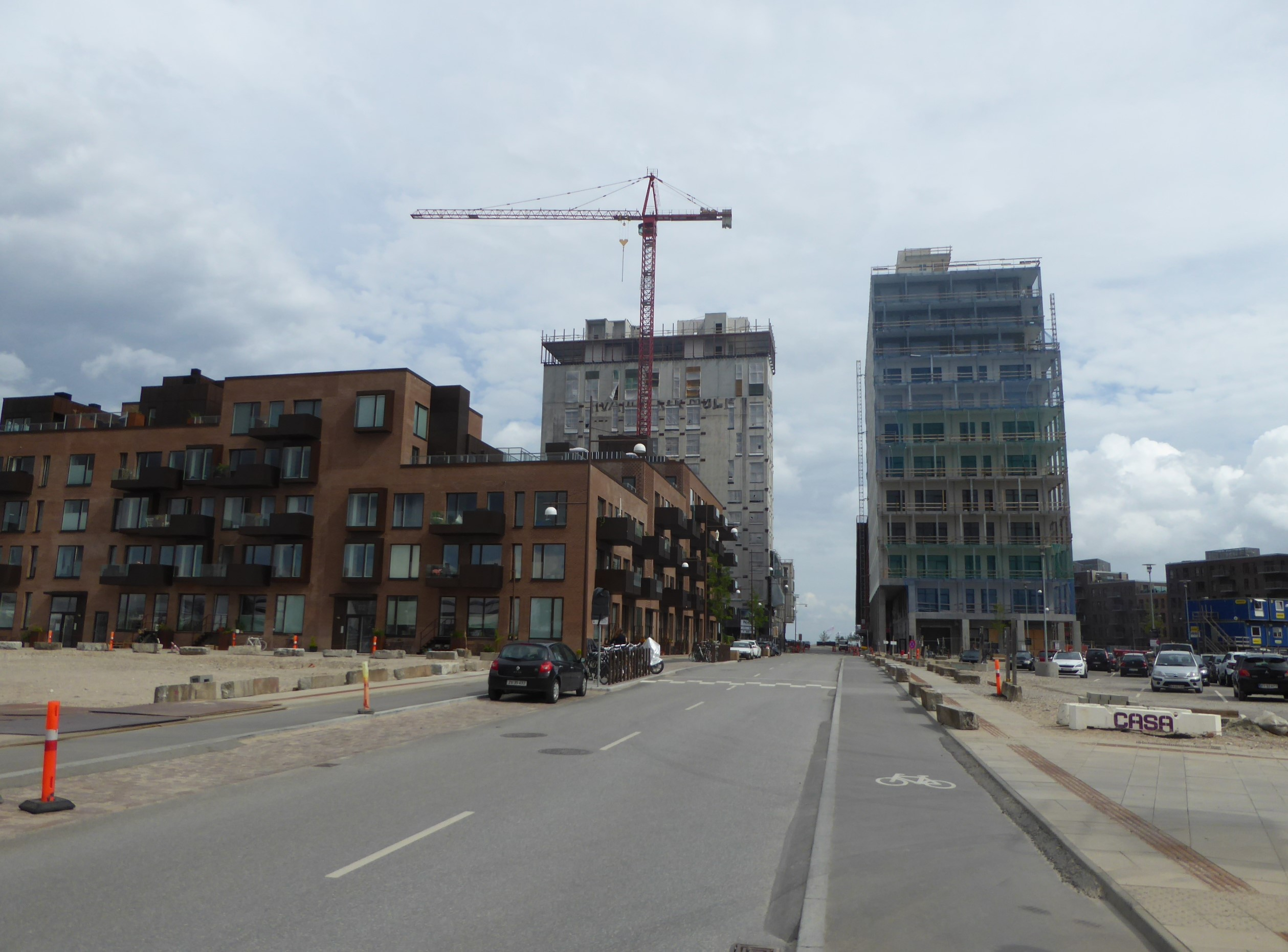 The street Helsinkigade with the buildings Kronløbshuset, The Silo and Frihavns Tårnet in Nordhavn in Copenhagen.